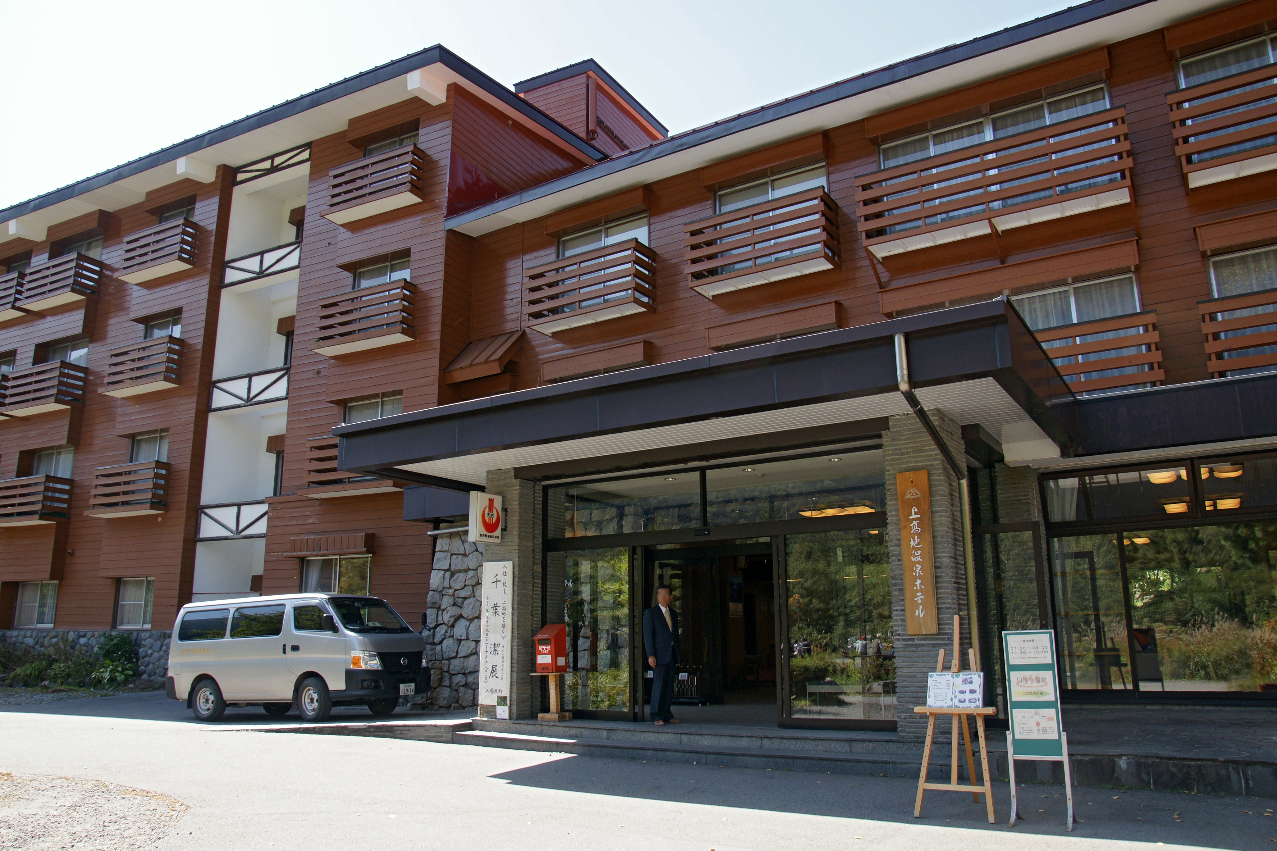 Kamikochi Onsen Hotel in Kamikochi, Matsumoto, Nagano prefecture, Japan